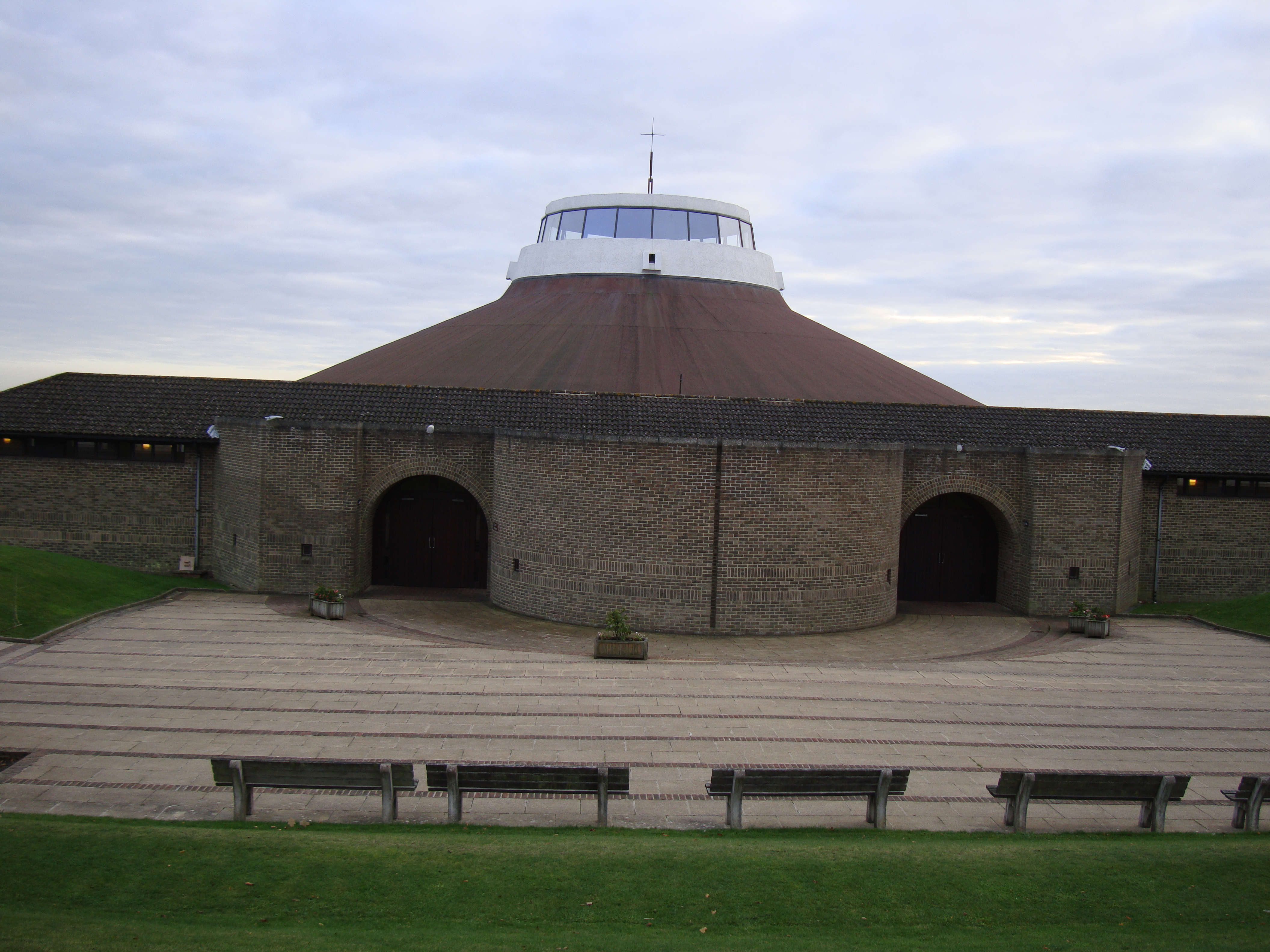 Our Lady Help of Christians church, Worth Abbey, West Sussex